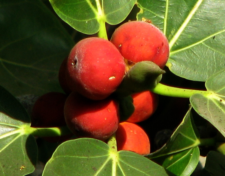 Banyan fruits